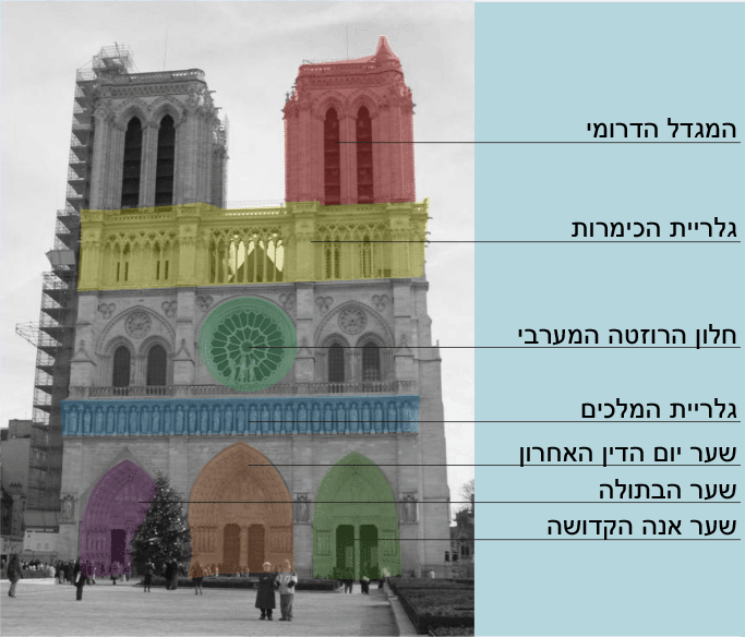 Notre-dame-west-front